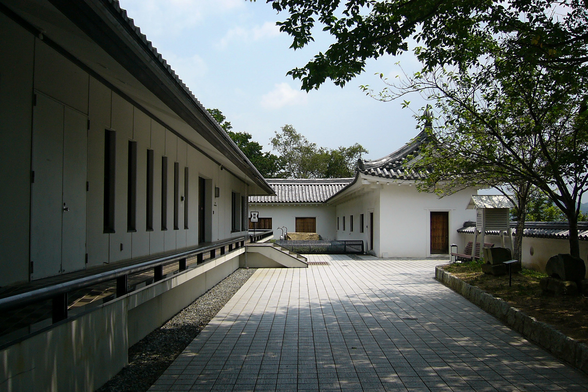 Tatsuno Municipal Museum of History & Culture in Tatsuno, Hyogo prefecture, Japan